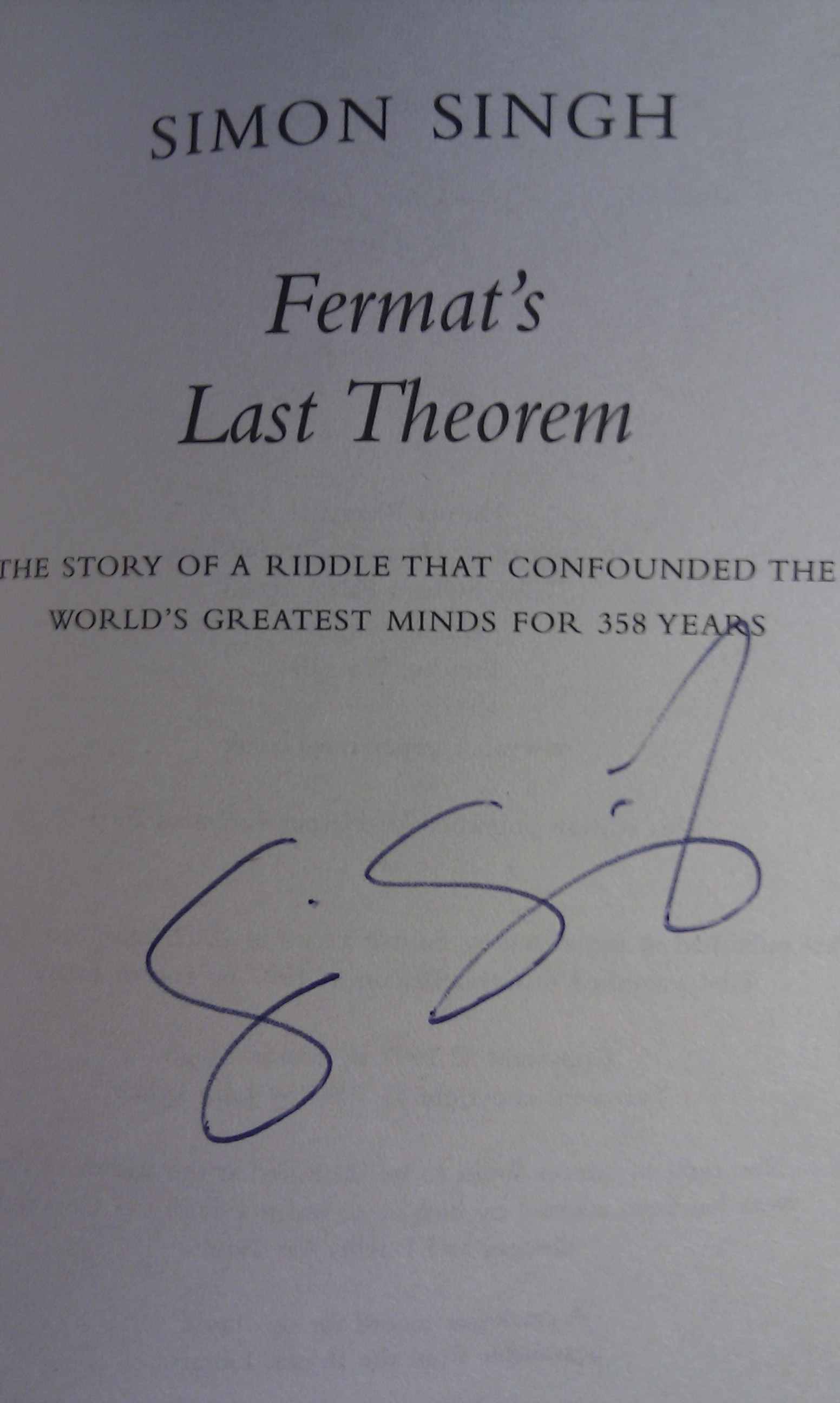 Fermat's Last Theorem by Simon Singh signed by the author.